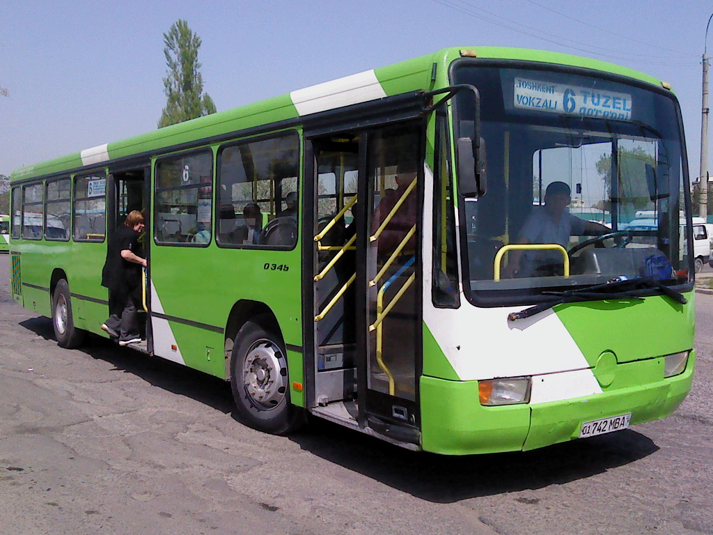 Mercedes-Benz O345 Conecto U bus in Tashkent